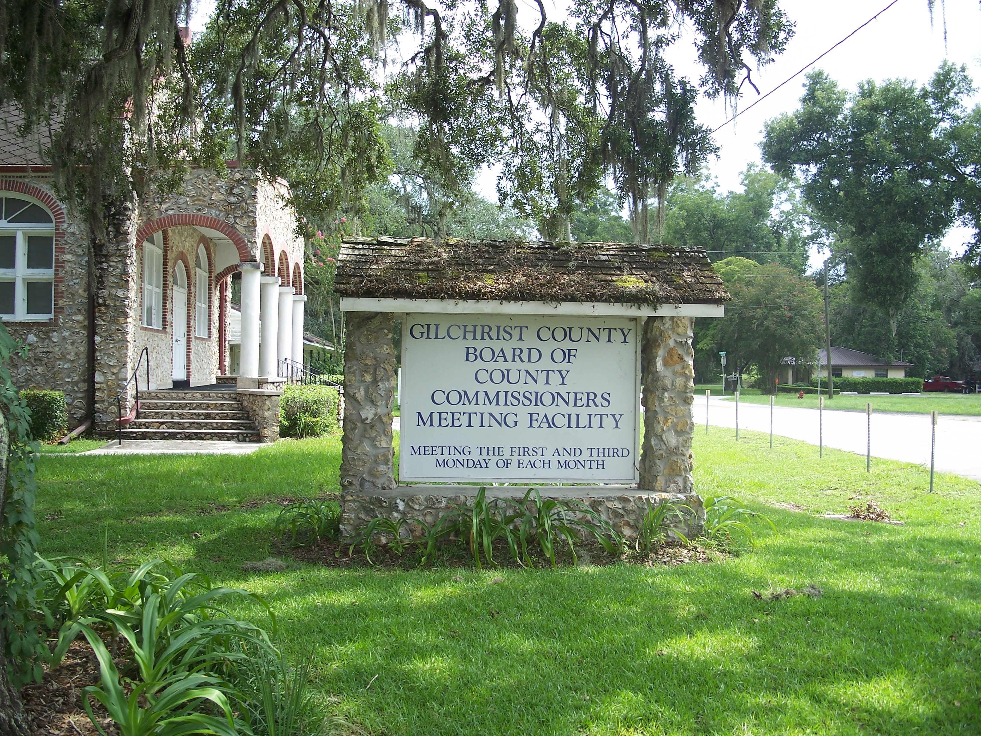 Trenton, Florida: Sign outside the Trenton Church of Christ, now the meeting place for the Gilchrist County Board of County Commissioners